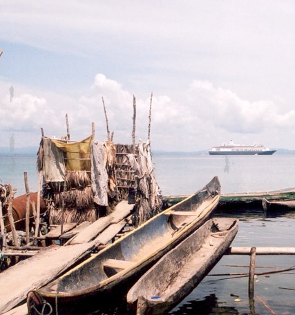 Author: Webber Source: "own work" Date: 2001